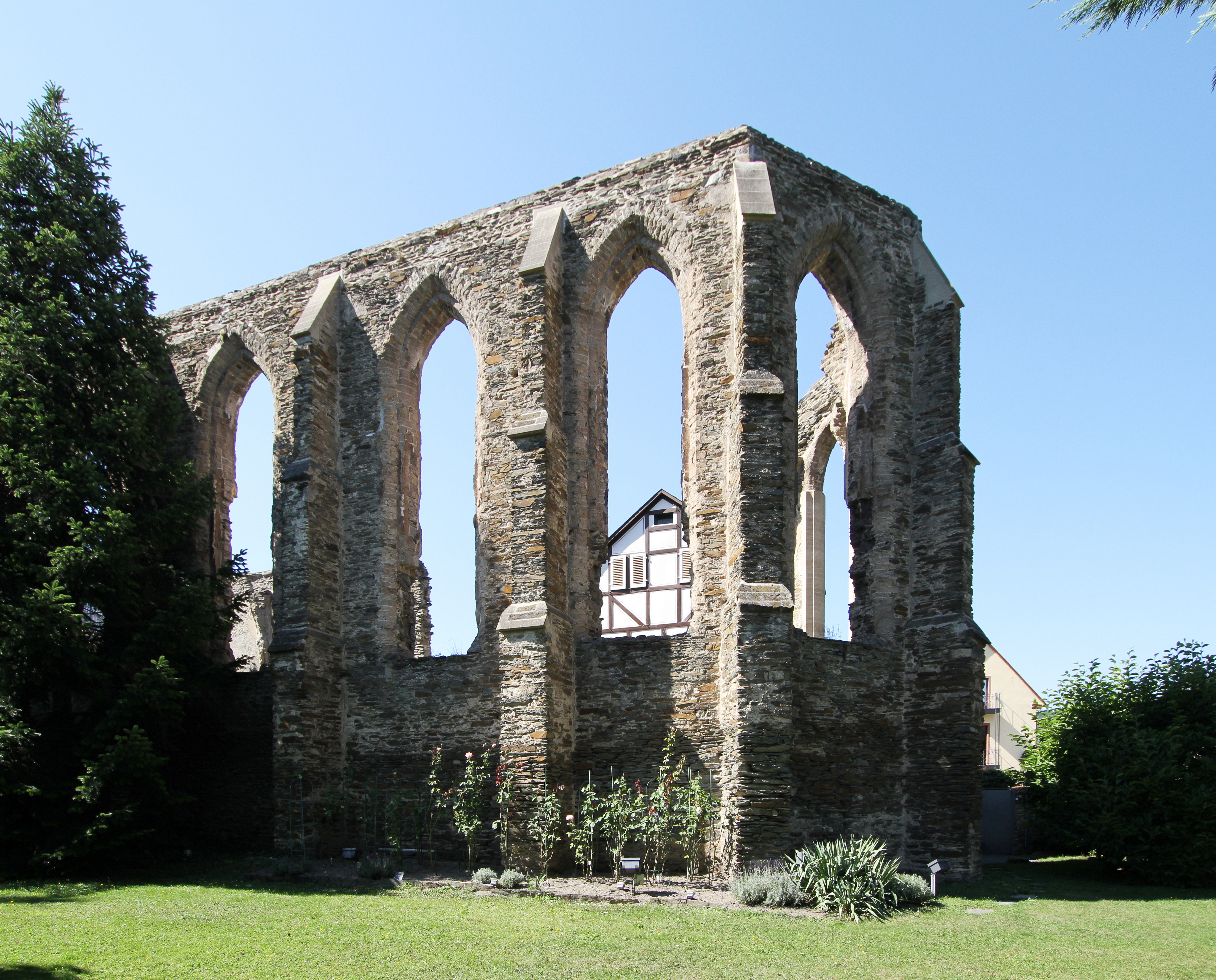 Cultural heritage monuments in Oberwesel, Rhine Valley/Germany.